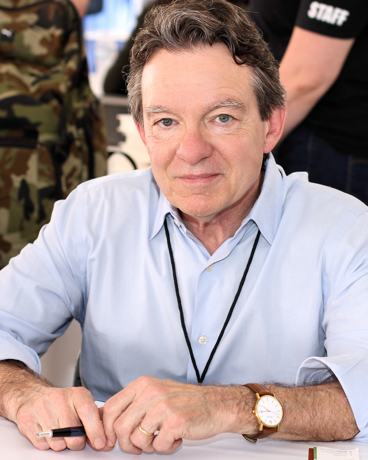 Author Lawrence Wright at the 2018 Texas Book Festival in Austin, Texas, United States.